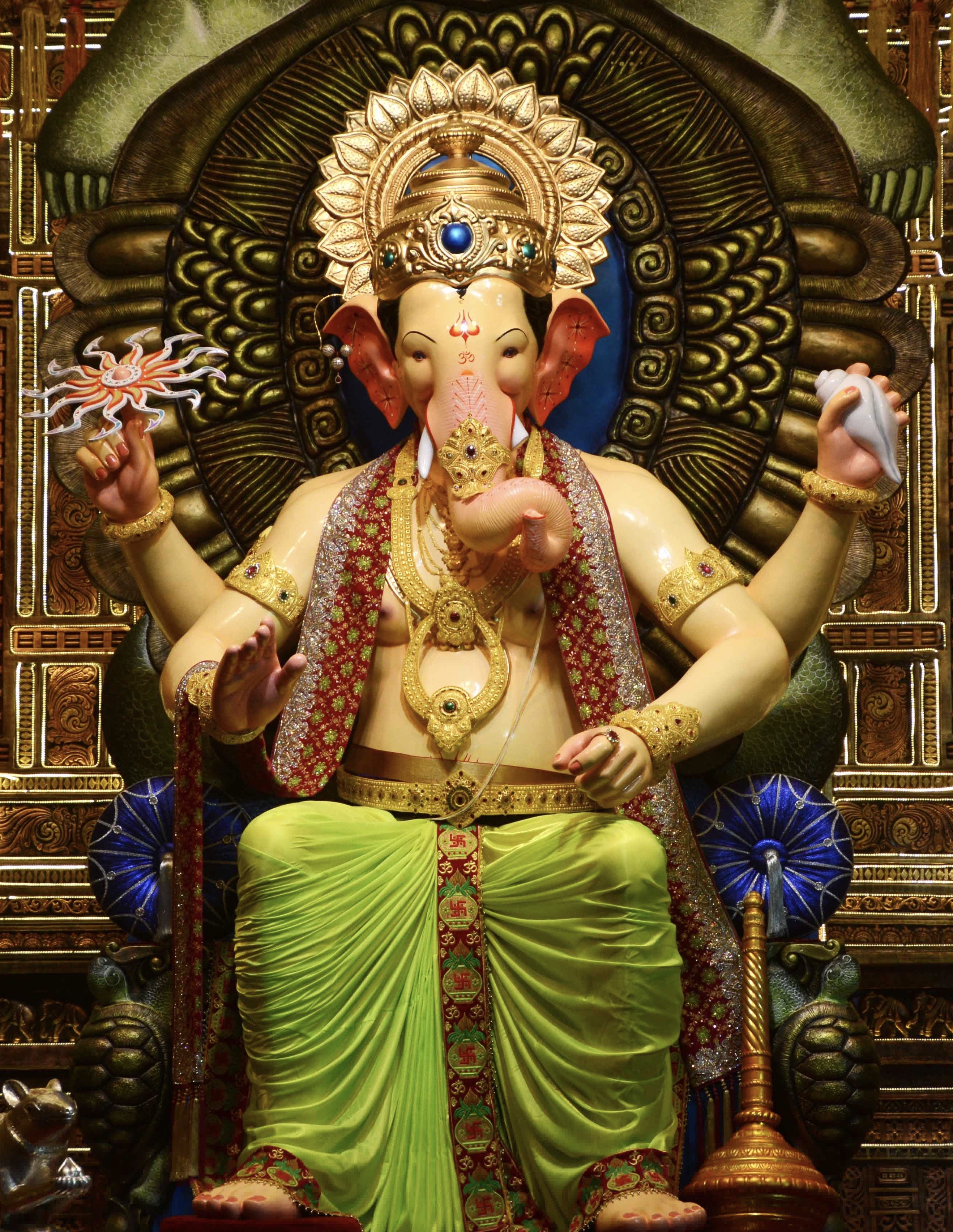 Picture of Lalbaugh Ganesha